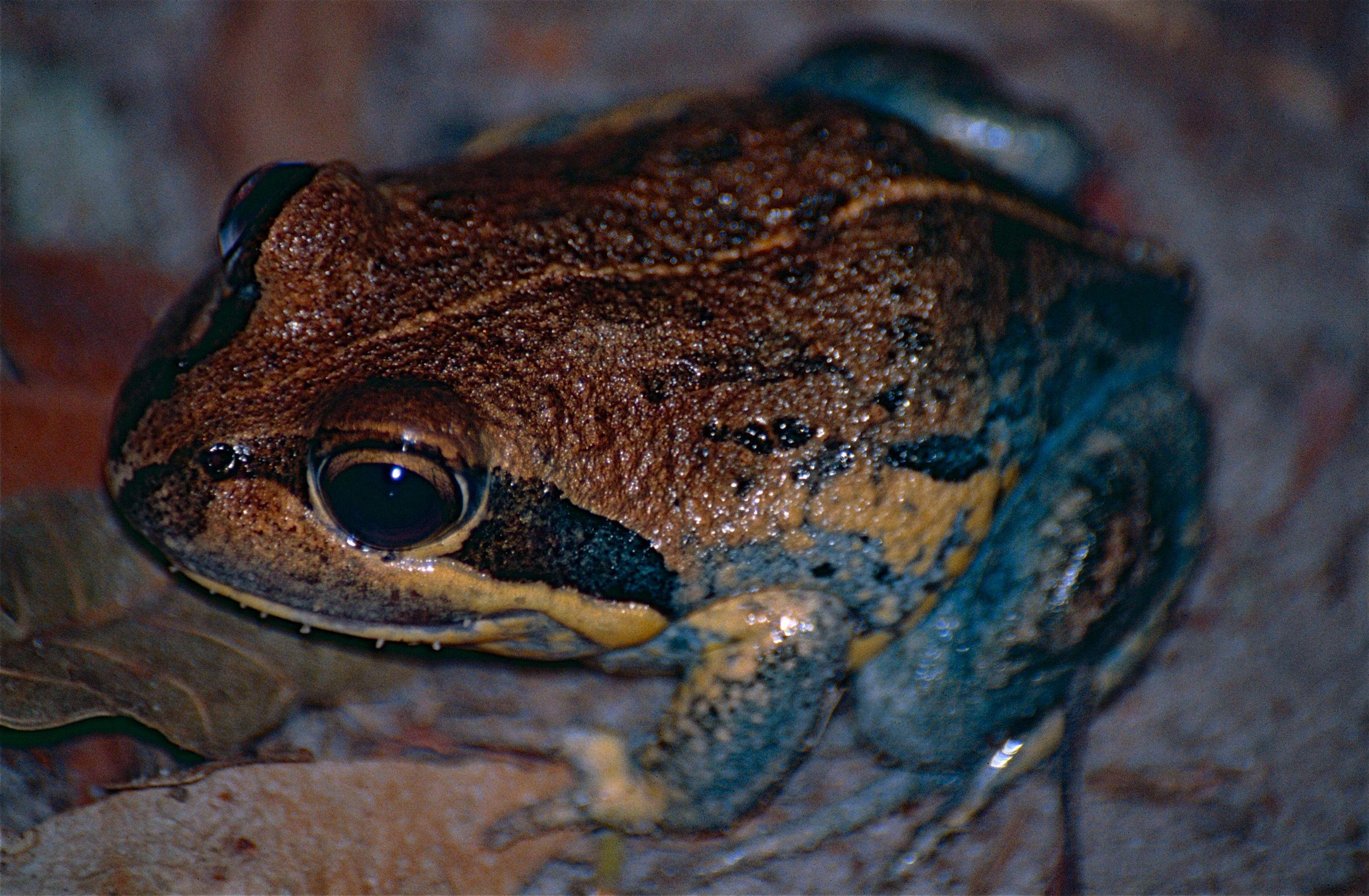 Noosa NP, Noosa Heads, South Queensland, AUSTRALIA Scanned Slide from Dec 2000